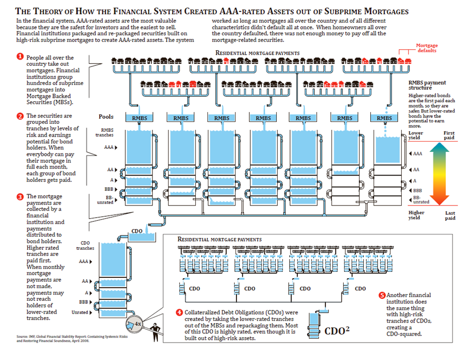 IMF and FCIC Diagram of MBS and CDO This diagram is from a 2008 IMF report and was included at the Financial Crisis Inquiry Commission website. Reference: IMF and FCIC Diagram - CDO and MBS The diagram shows how mortgages were combined into pools and rights to the cash flow from these mortgages sold to investors via residential mortgage-backed securities (RMBS). High-risk RMBS securities were purchased by legal entities called collateralized debt obligations (CDO) which issued another layer of securities to investors.